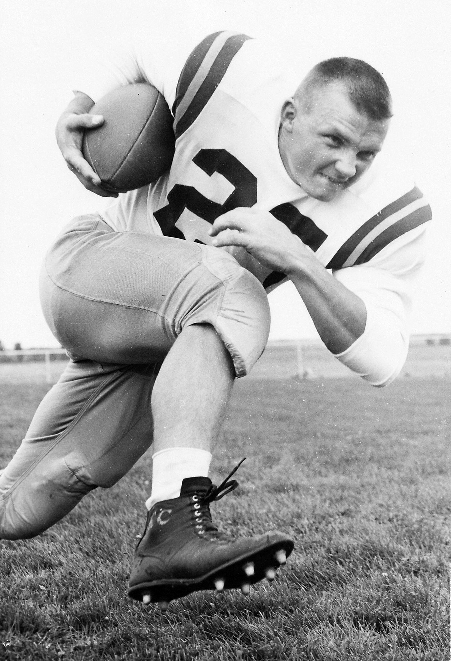 Gary Boner as a player at South Dakota State University, 1963.